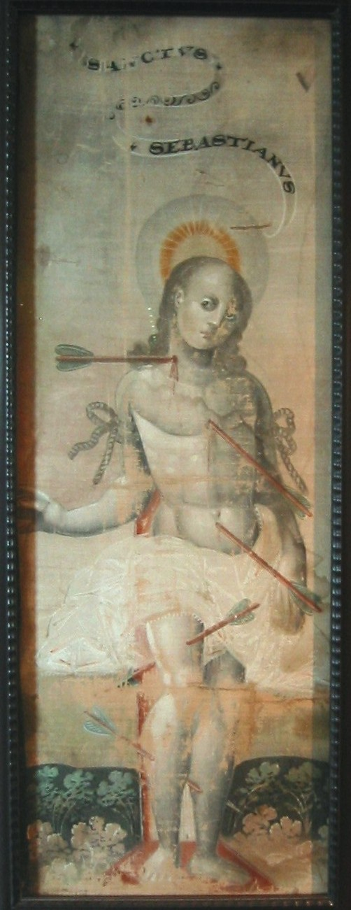 Tempera painting of the martyr of Saint Sebastian, 1590-1600, Japan. Musée Guimet. Personal photograph 2005.